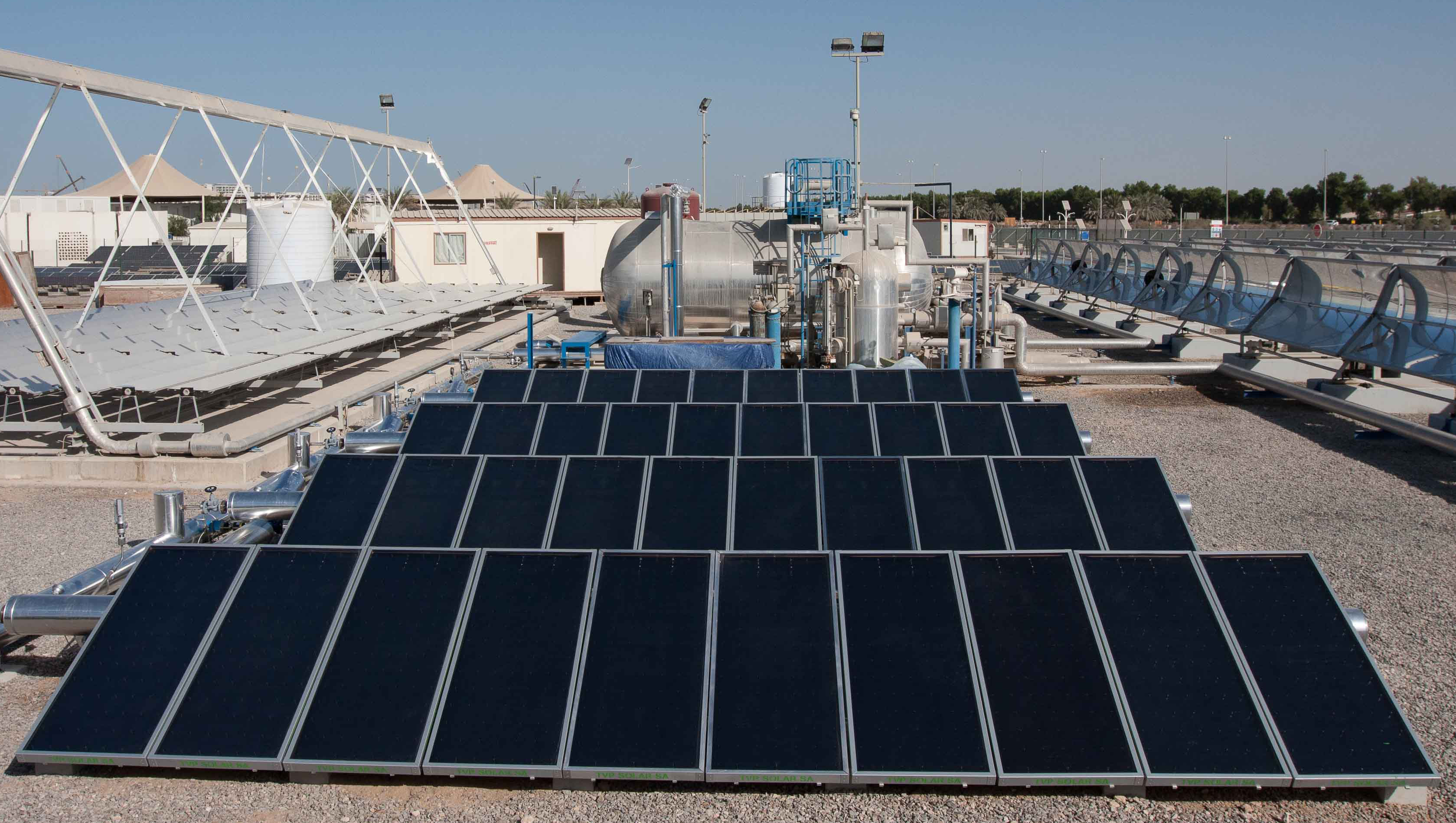 An array of MT-Power evacuated flat plate collectors at Masdar City